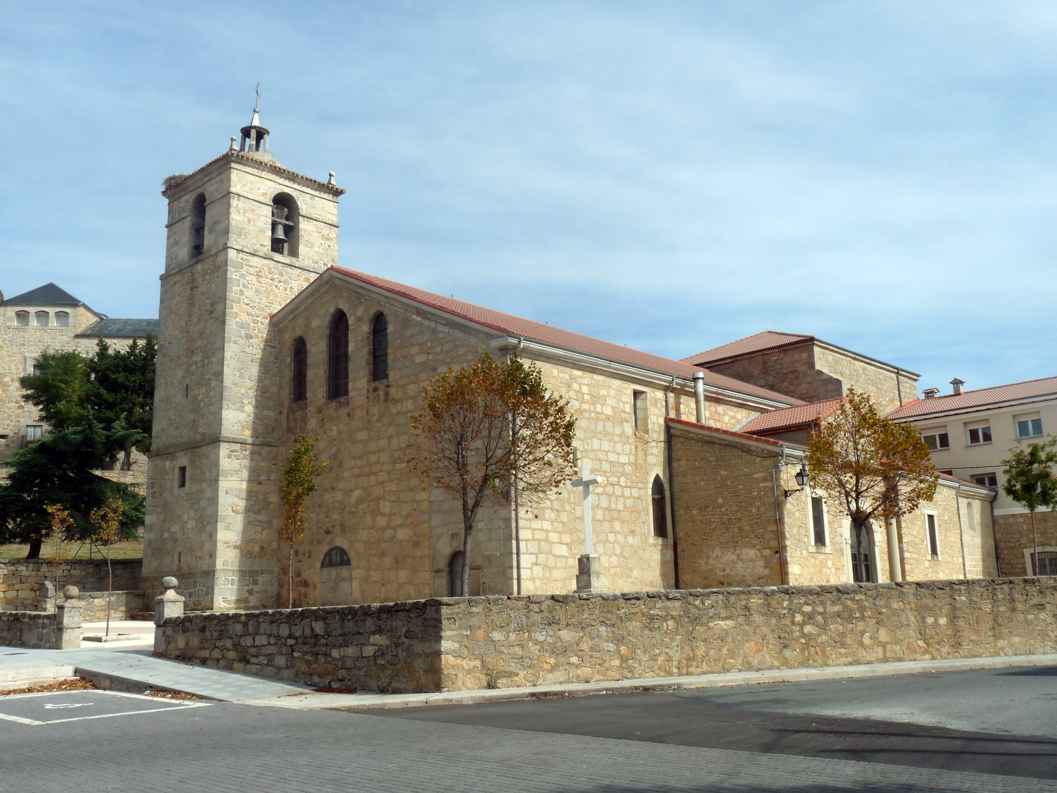 Church of San Juan Bautista, Las Navas del Marqués, province of Ávila, Castile and León, Spain.